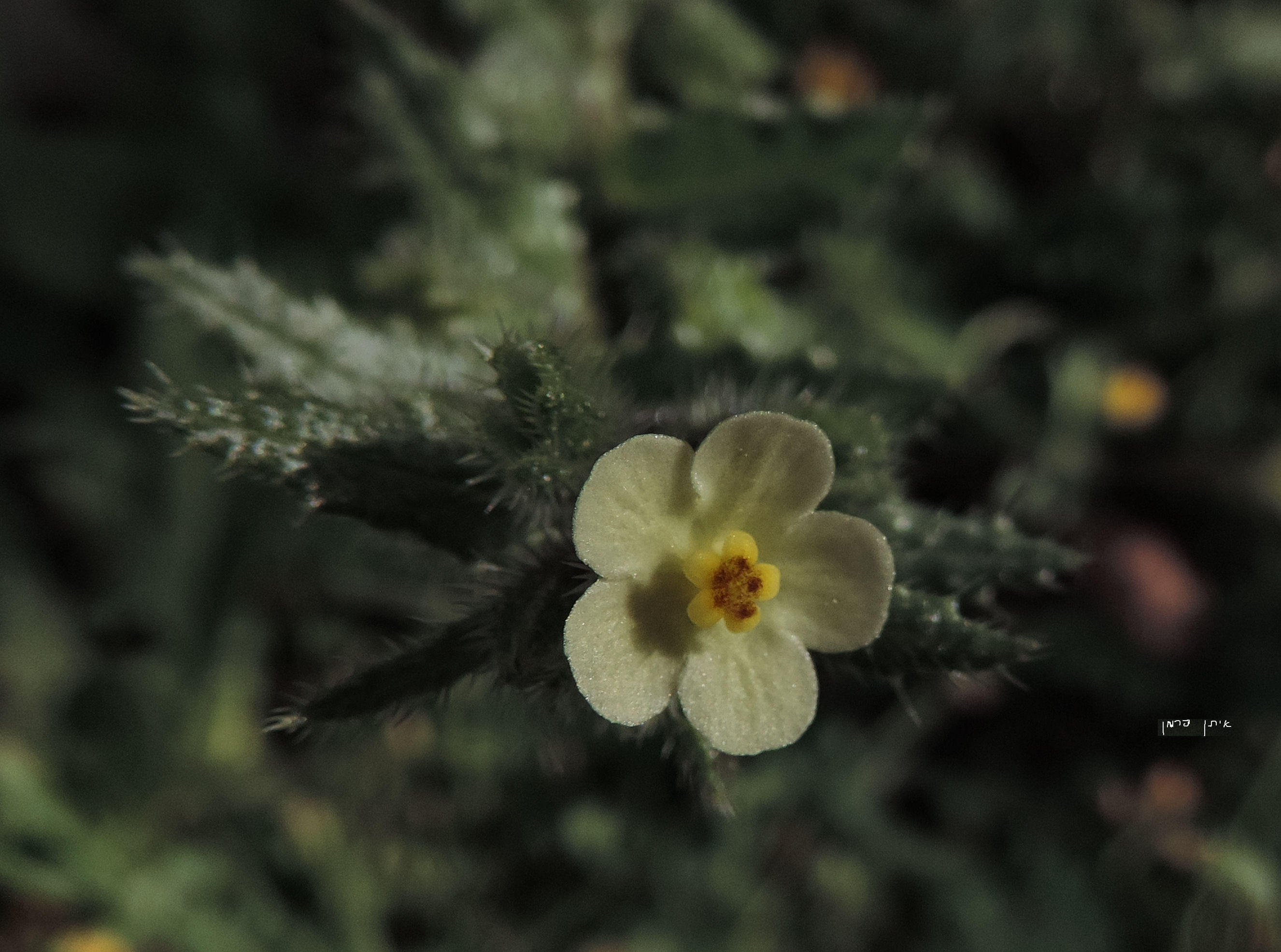 Anchusa aegyptiaca